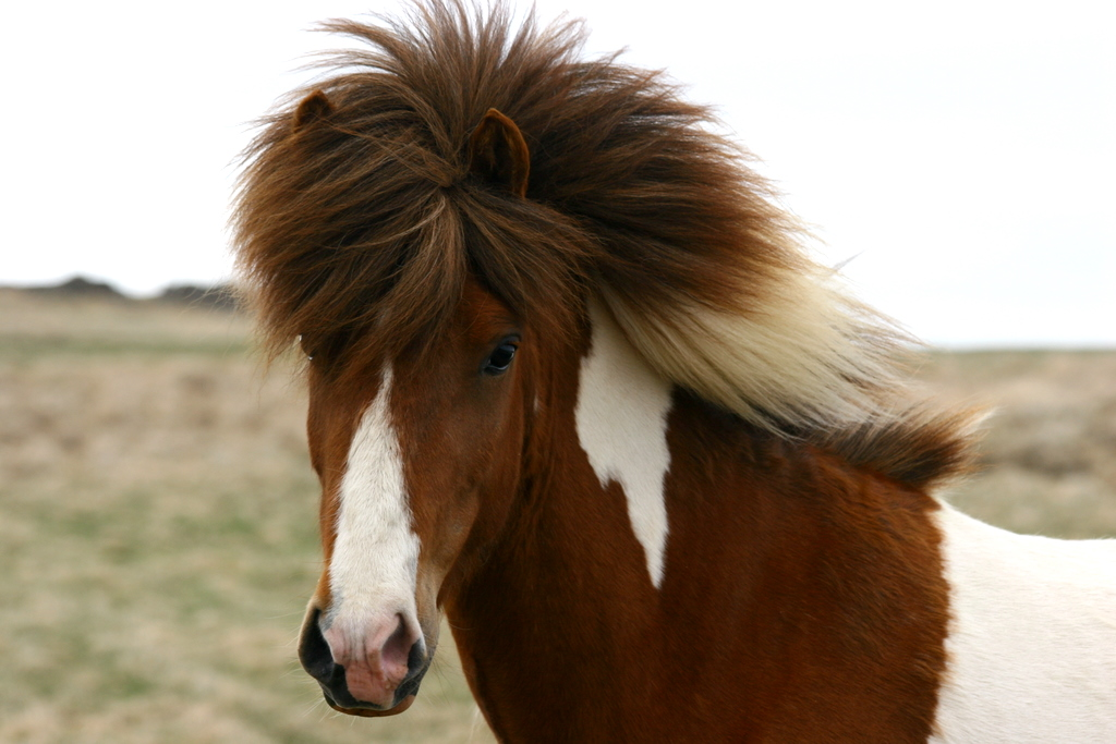 We thought he looked a bit like Bill from Tokyo Hotel ... and he really enjoyed the posing (maybe he is a she, we have no idea and did not look too closely which makes it even more fitting for Tokyo Hotel *g*)